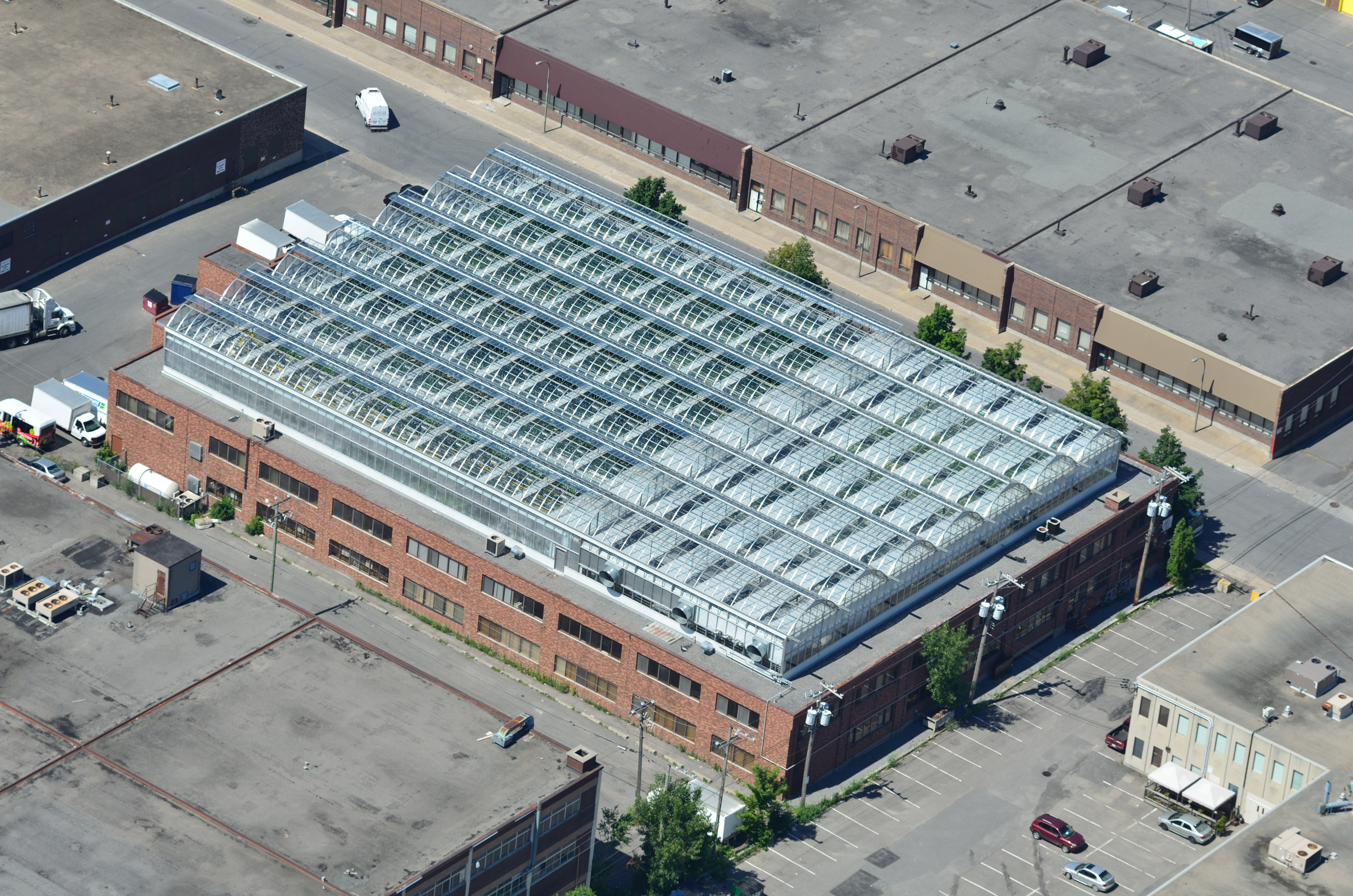 Aerial view of Lufa Farms, the world’s first commercial rooftop greenhouses. Montreal neighborhood of Ahuntsic-Cartierville.